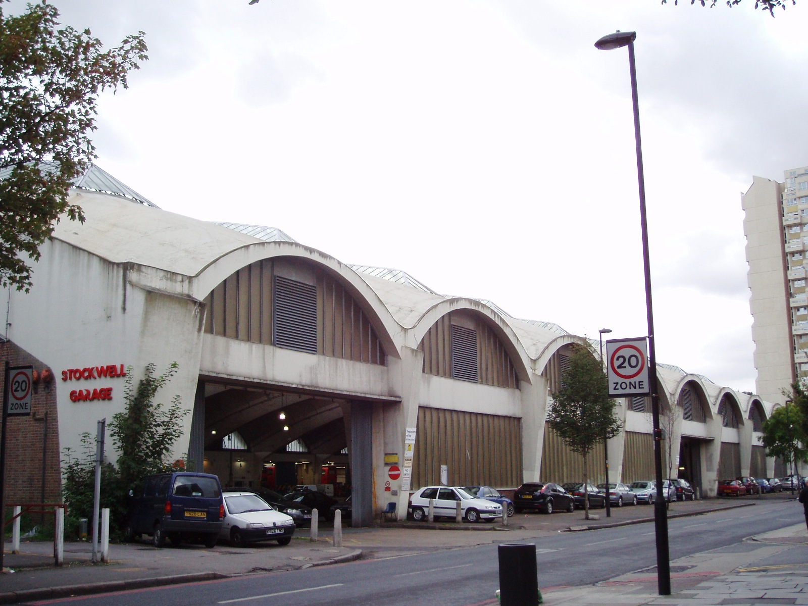 Striking vaulted arches mark this bus garage. It's like the bus station of the FUTURE.